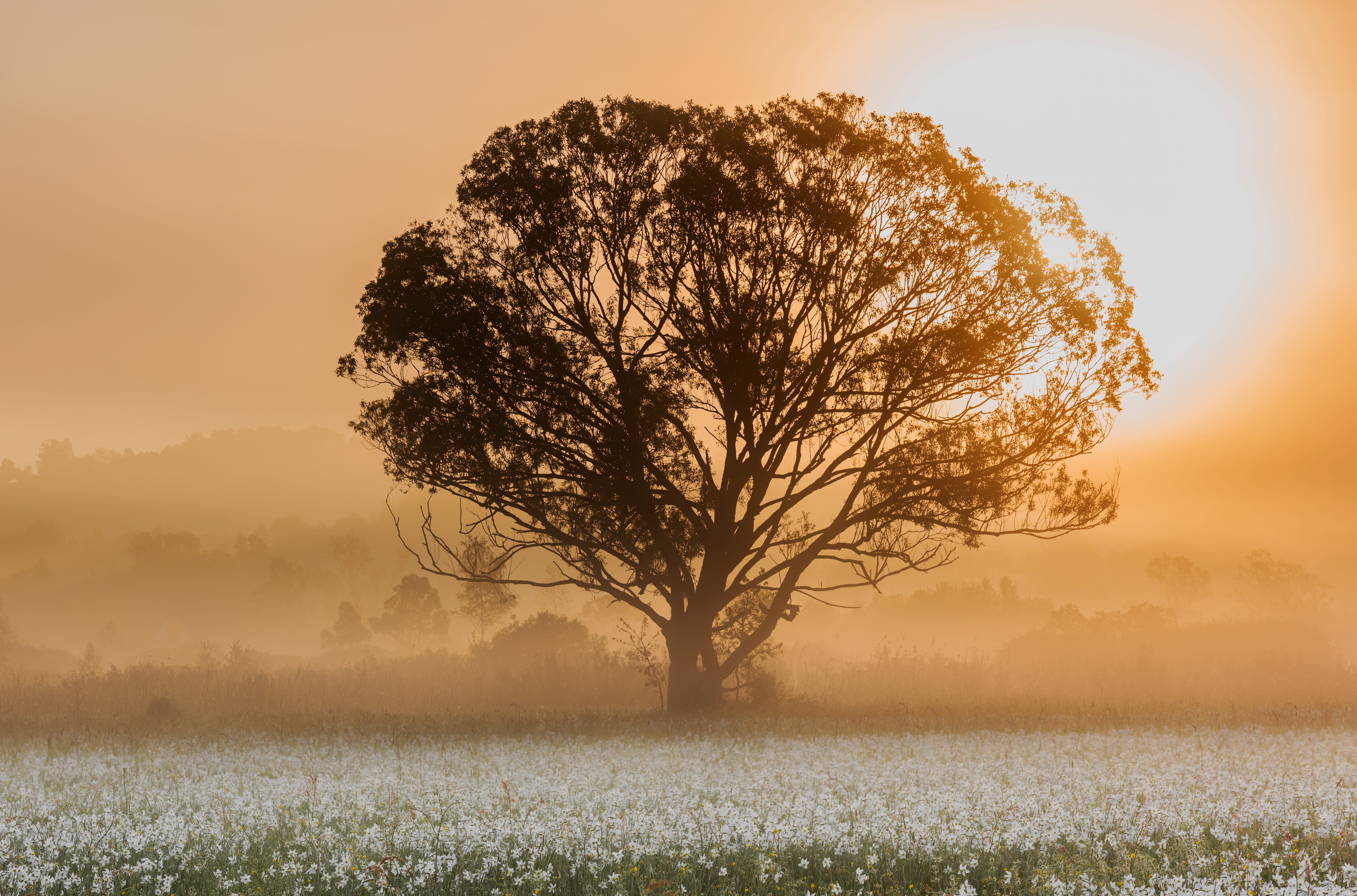 Valley of Narcissus, a natural lowland habitat of Narcissus poeticus in Transcarpathian region, Ukraine. Carpathian Biosphere Reserve